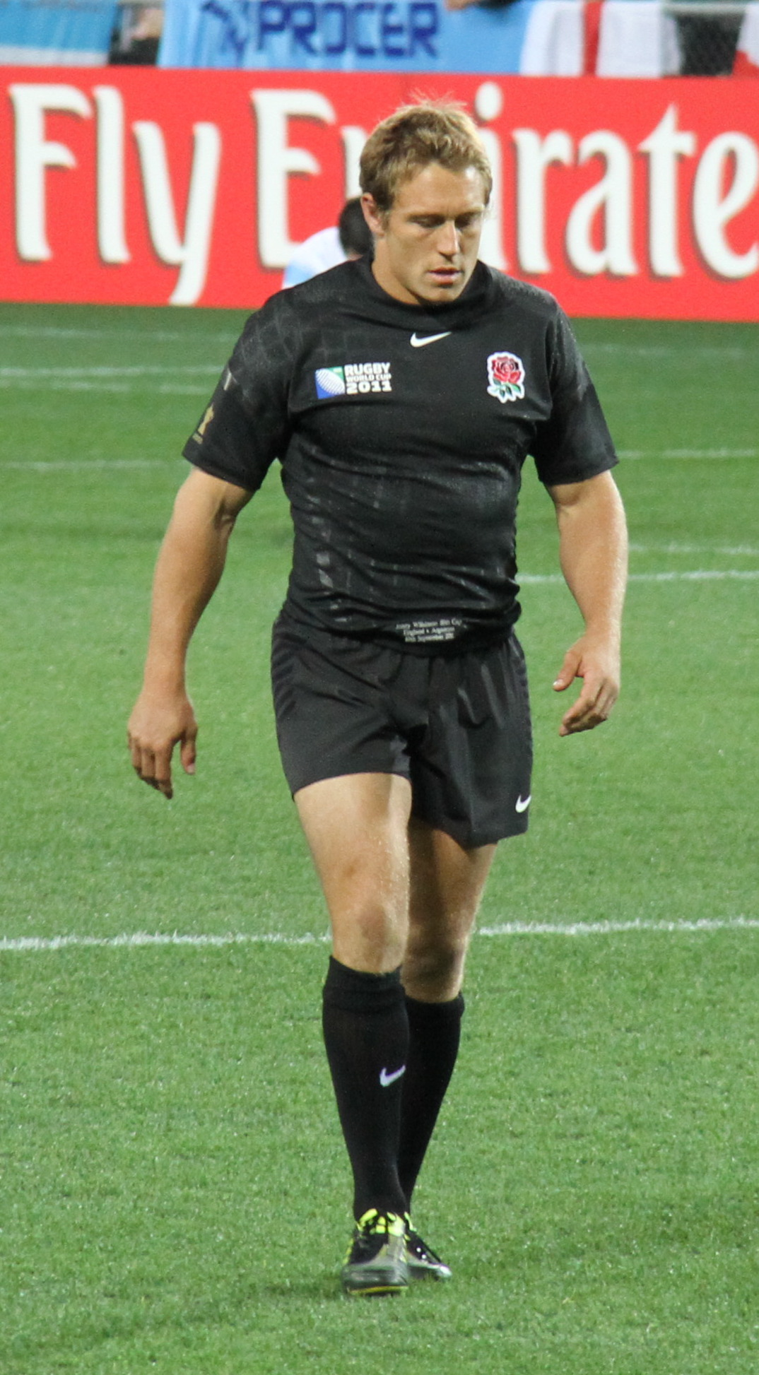 English rugby union player Jonny Wilkinson during 2011 Rugby World Cup match against Argentina.